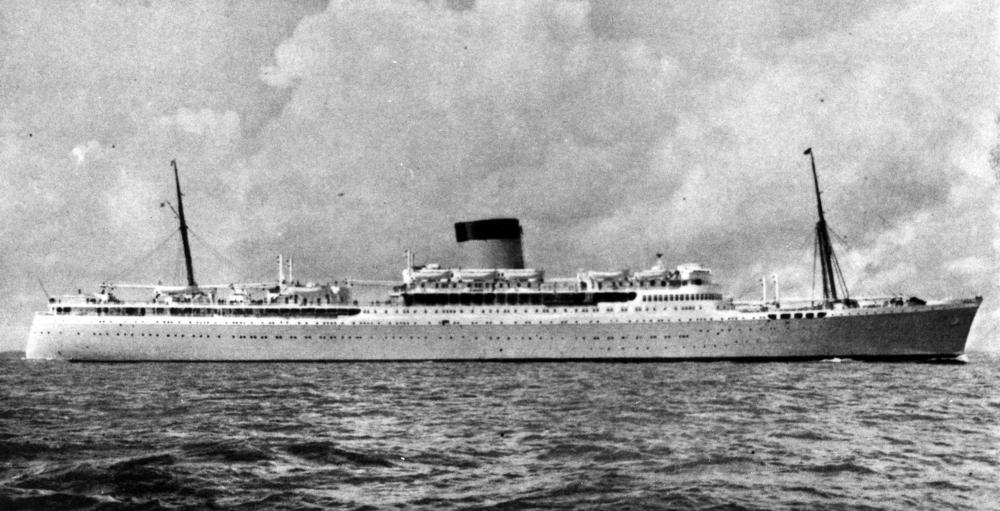 Edinburgh Castle III (ship) Built in Belfast, Northern Ireland in 1948. Union-Castle Line to South and East Africa. The Union-Castle Royal Mail Steamer, approximately 28,705 tons.